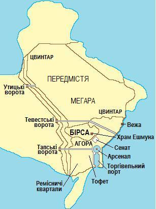 Map of Carthage (ukrainian)